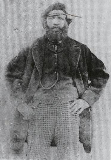 Mr William Dabbs. The driver of 0-4-2WT the early locomotive of the Cape. South African Railways.